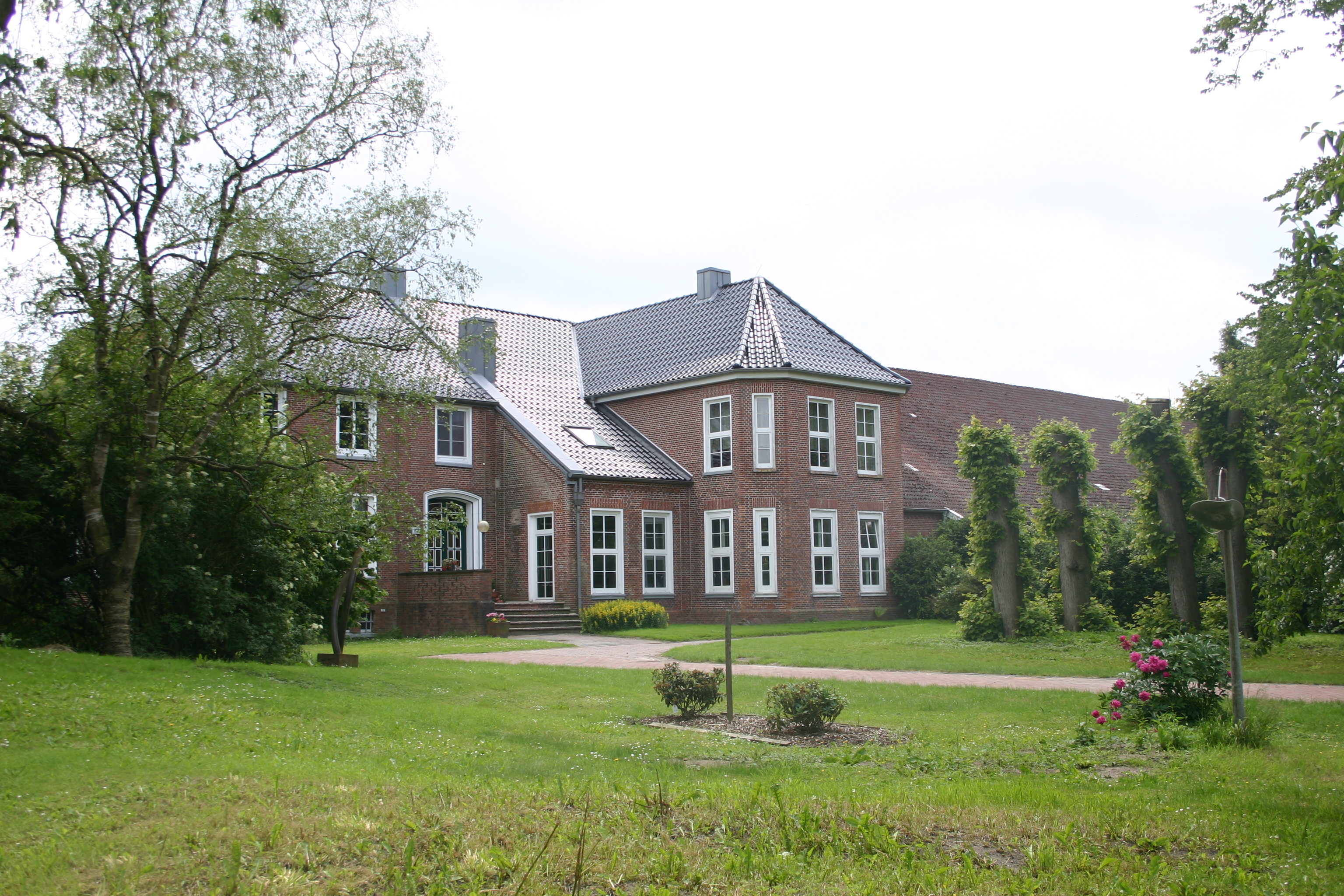 Farmhouse in Landschaftspolder (community of Bunde, district of Leer, East Frisia, Germany). The fertile soil close to the North Sea allowed farmers to erect big farmhouses like this one.